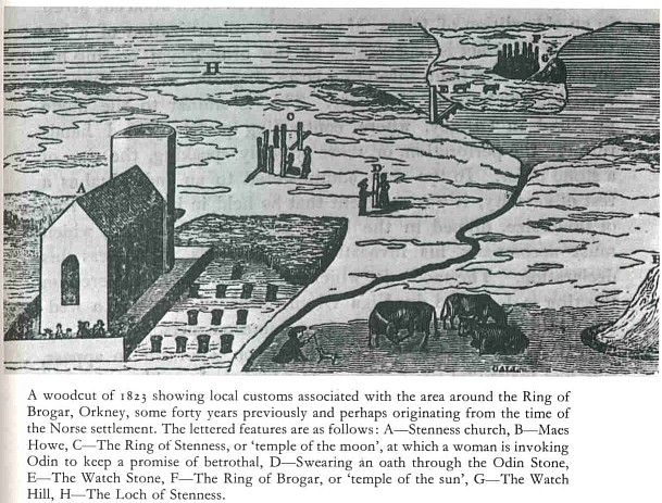 1823 woodcut image, Brodgar area